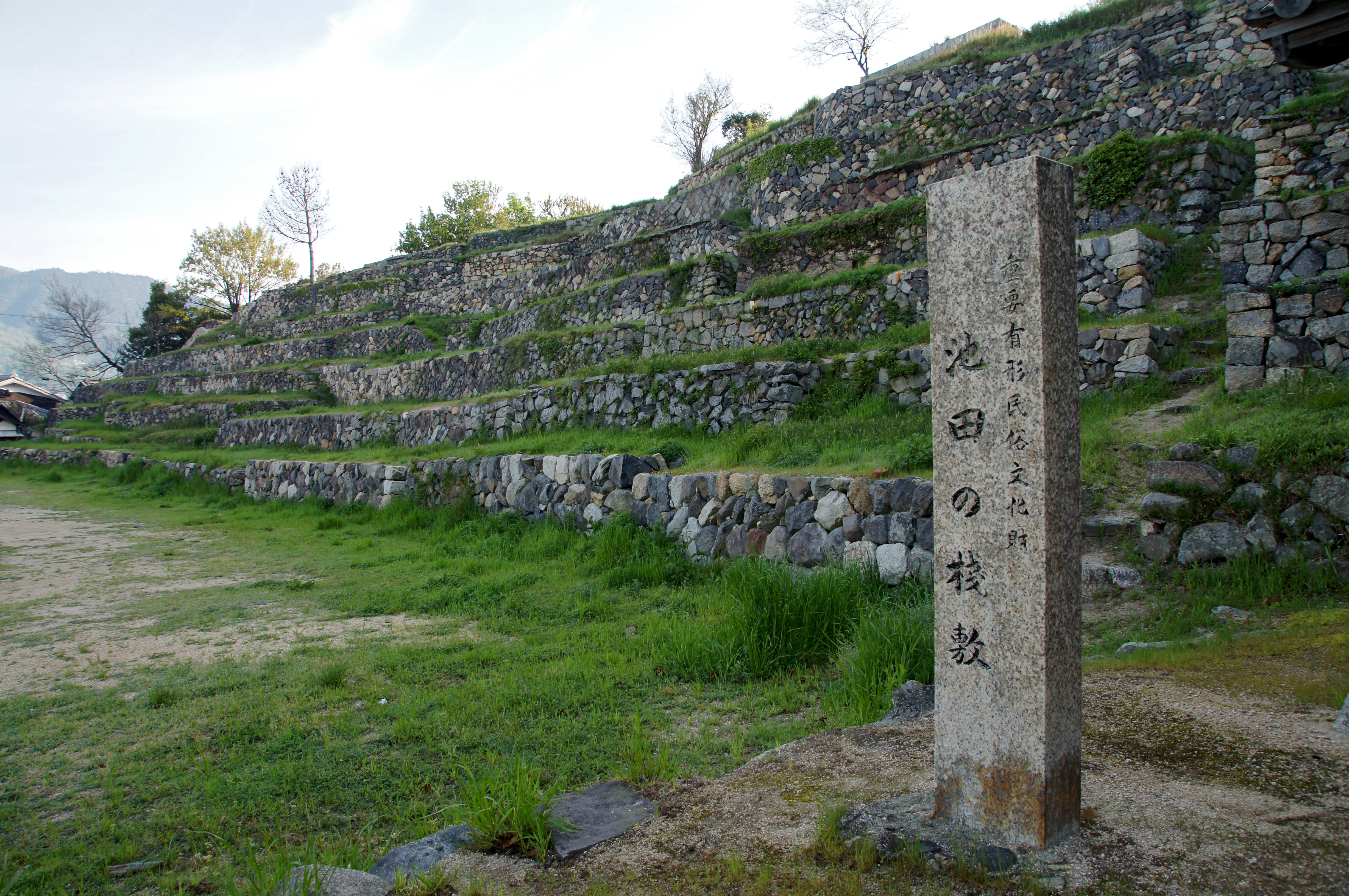 Ikeda-no-sajiki in Shodoshima, Kagawa prefecture, Japan